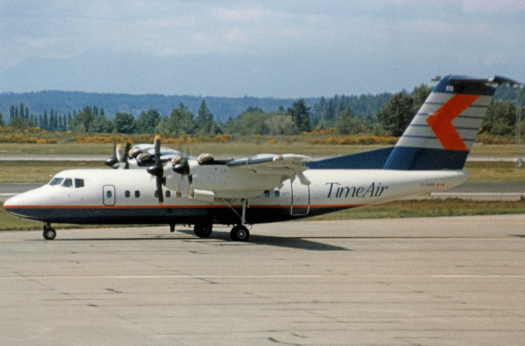 De Havilland DHC-7 C-FCOQ of Time Air at Seattle-Tacoma airport in 1989